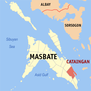 Map of Masbate showing the location of Cataingan